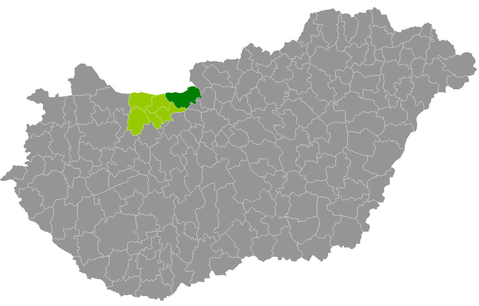 Location of Esztergom District, Komárom-Esztergom, Hungary